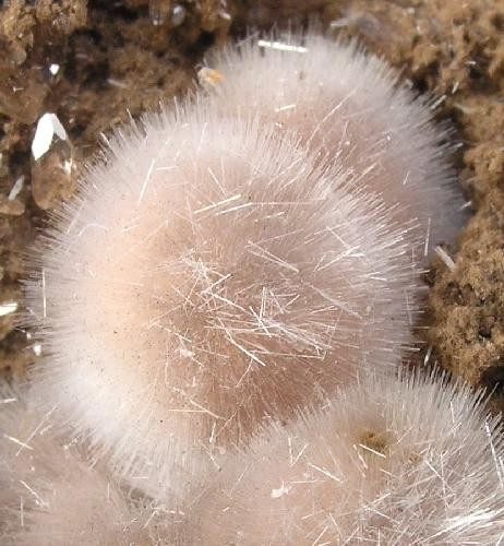 Bultfonteinite Locality: Wessels Mine (Wessel's Mine), Hotazel, Kalahari manganese fields, Northern Cape Province, South Africa (Locality at ) Size: 7.8 x 6 x 6 cm. A rare species, here it is in sharp acicular crystals in sprays up to .7 cm, showing a pleasing and unusual pink color and excellent luster. Ex. Charlie Key Collection.